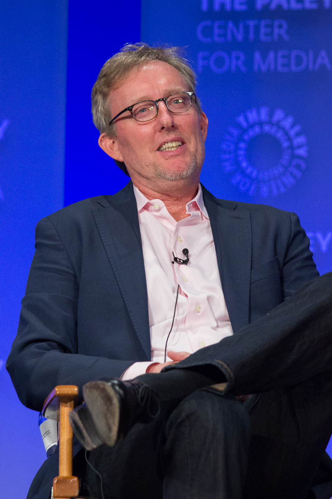 Alex Gansa at PaleyFest 2015 - An Evening with the Cast and Creative Team of Homeland